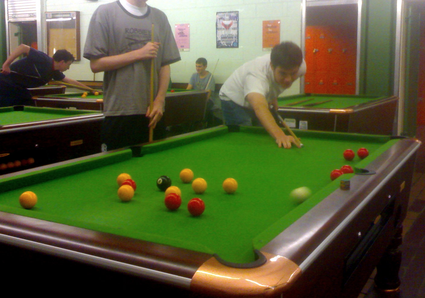 A player executing a kick shot in the (chiefly British Commonwealth) pocket billiards game blackball, a variant of eight-ball.